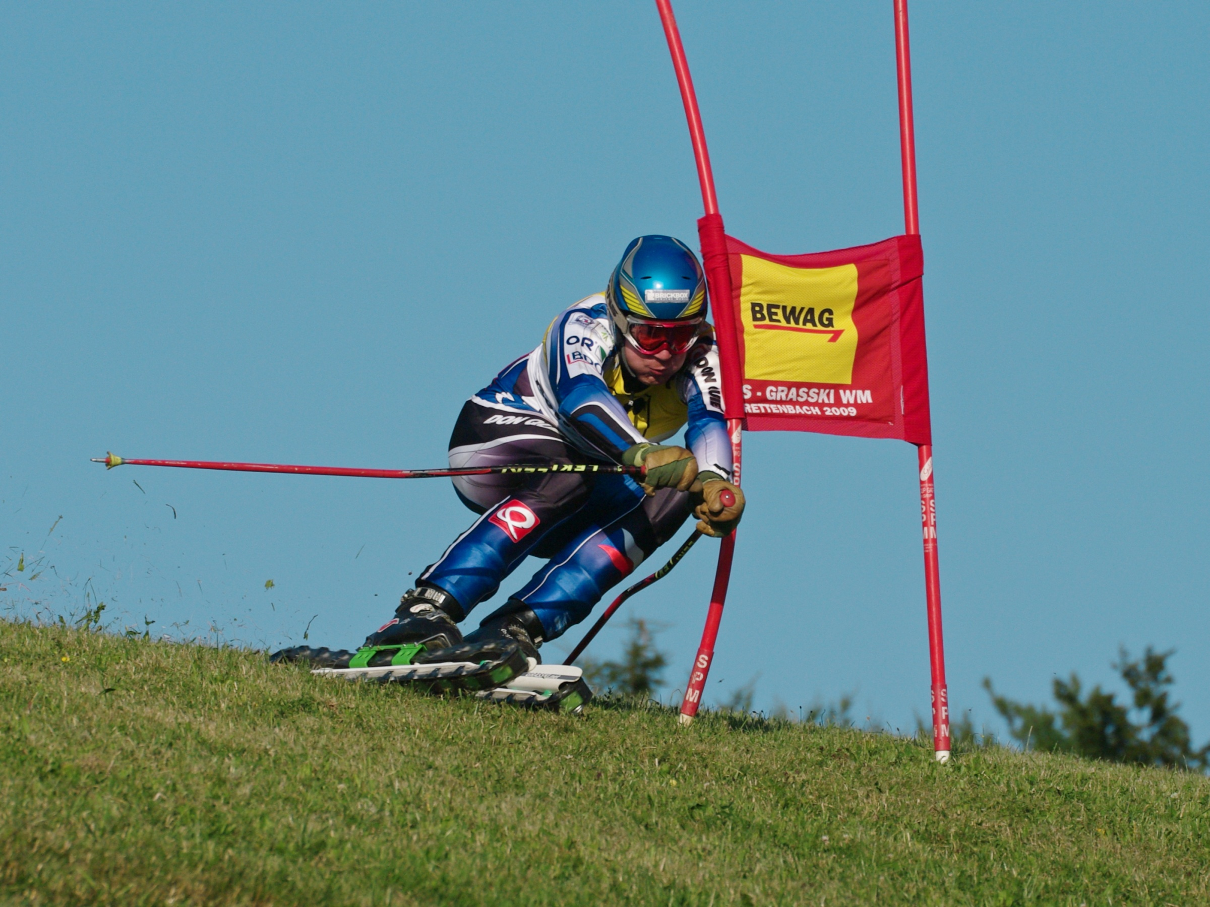 Czech Grass skier Jan Gardavský in the FIS Super-G in Rettenbach on 9 July 2011.